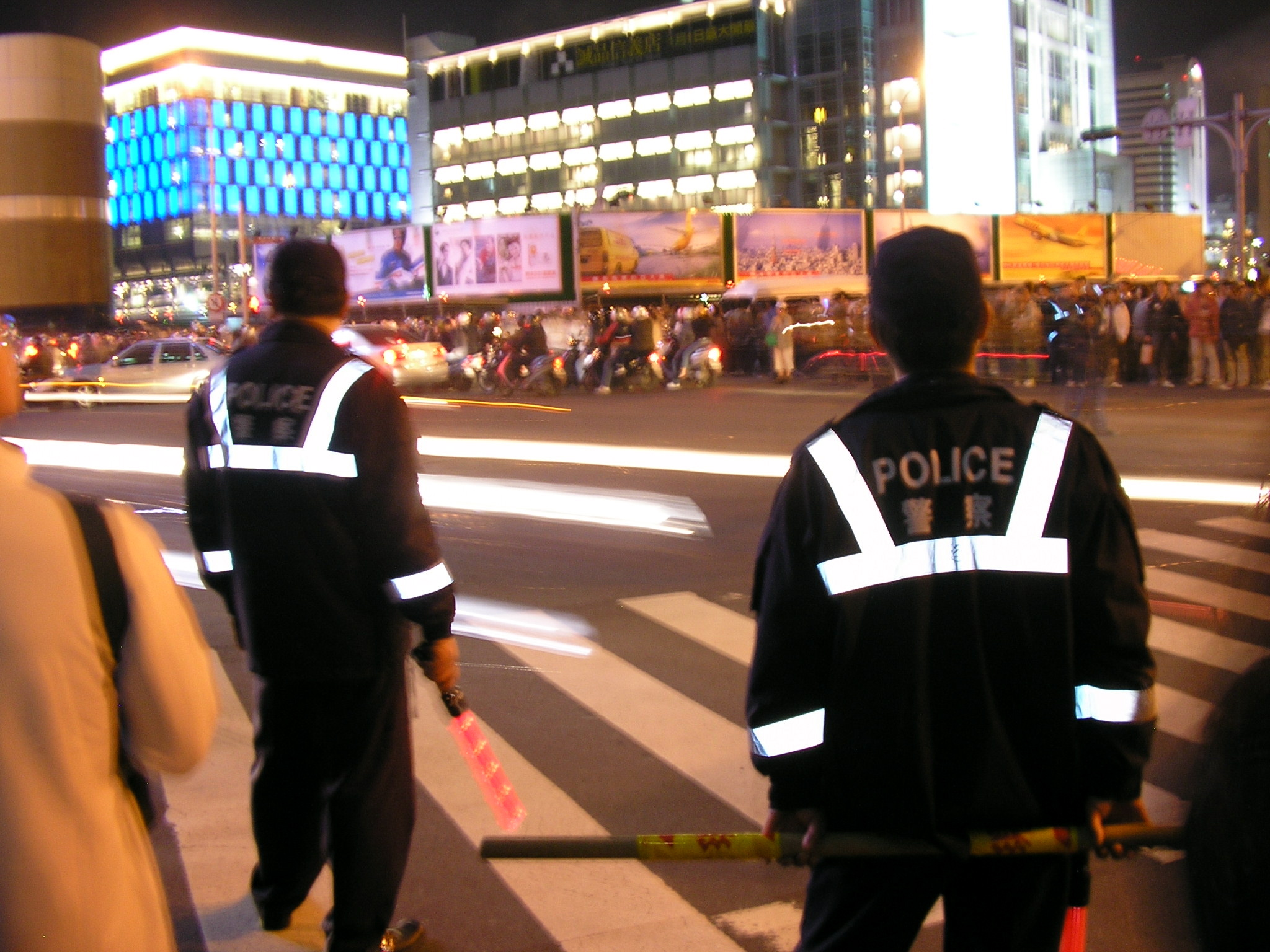 Taipei police officers directing traffic during New Years Eve 2005 celebrations.